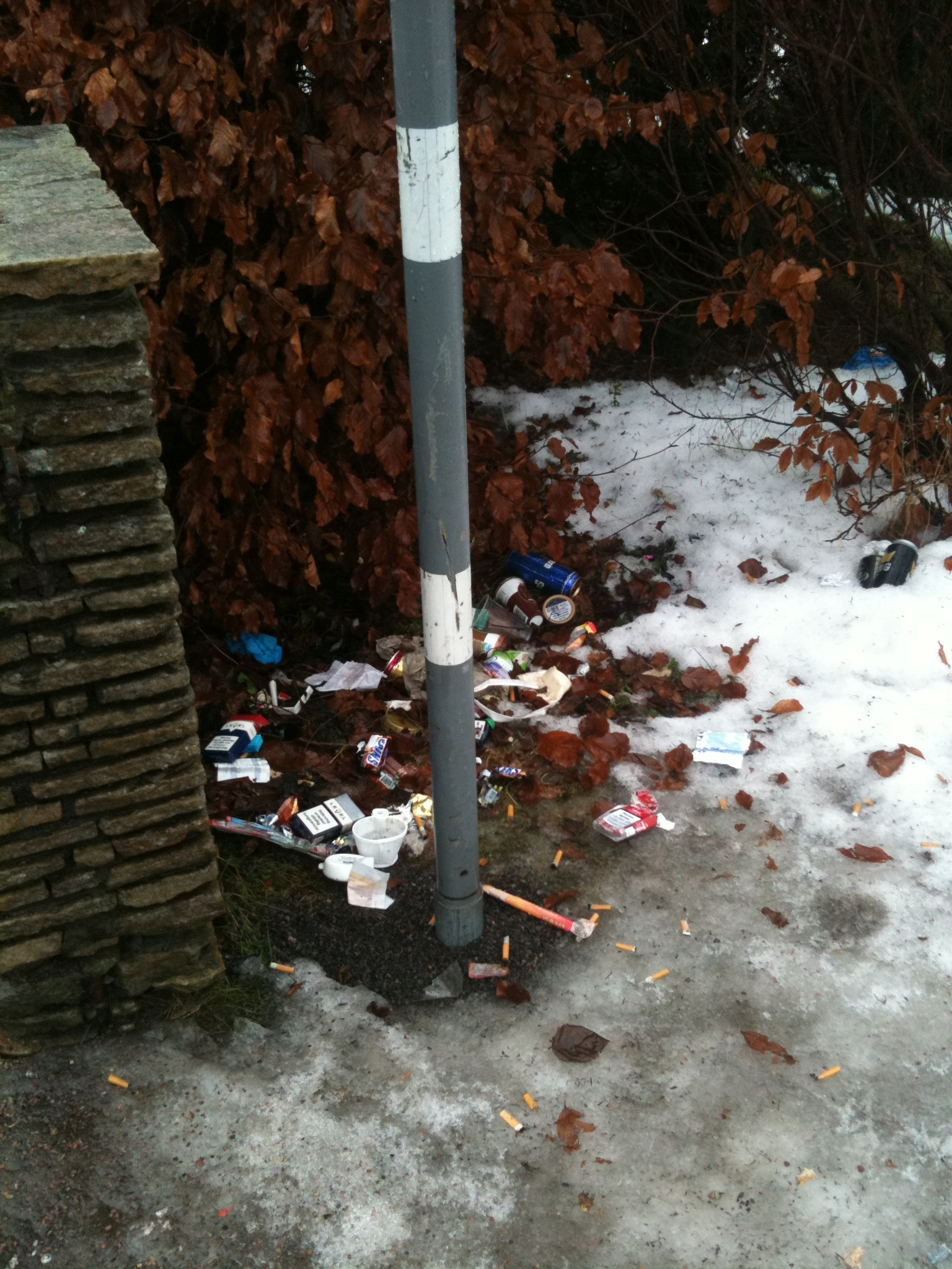 Littering at a bus stop in Sweden